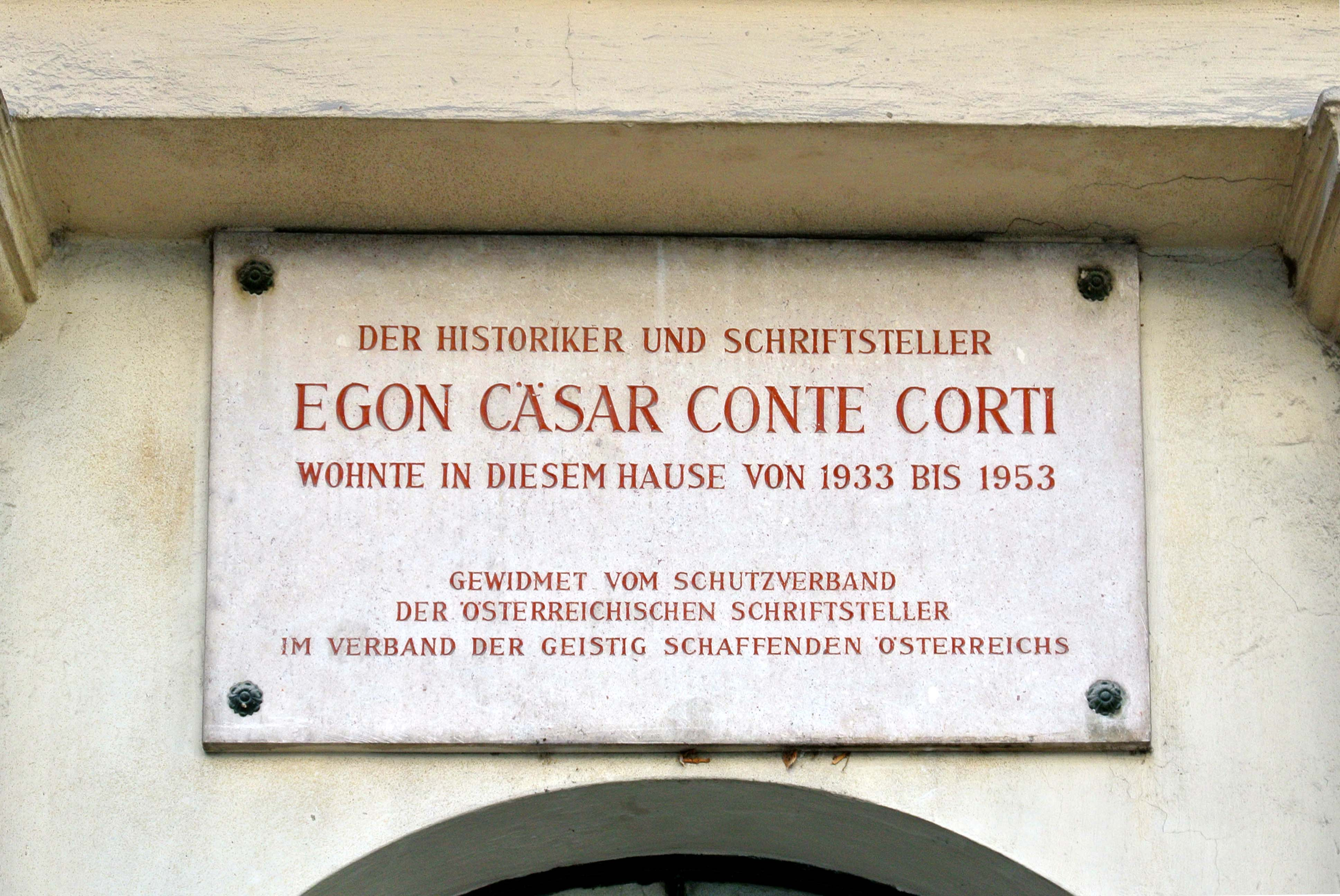 Egon Caesar Conte Corti (born April 2, 1886 in Agram (Zagreb), Croatia; died September 17, 1953 in Klagenfurt today) officer, historian and writer. Lived 1933-1953 in the House Franziskanerplatz.1, Vienna-City.